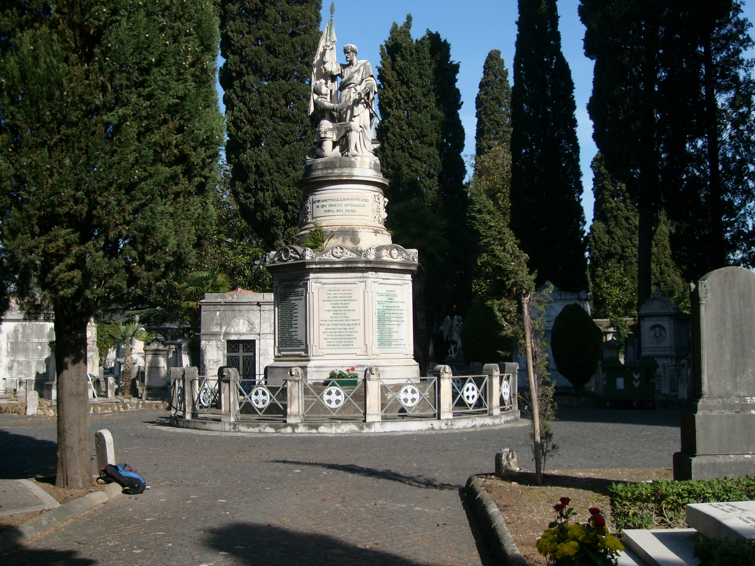 Monument erected in Rome to commemorate fallen Zouaves in Battle of Mentana (1867)